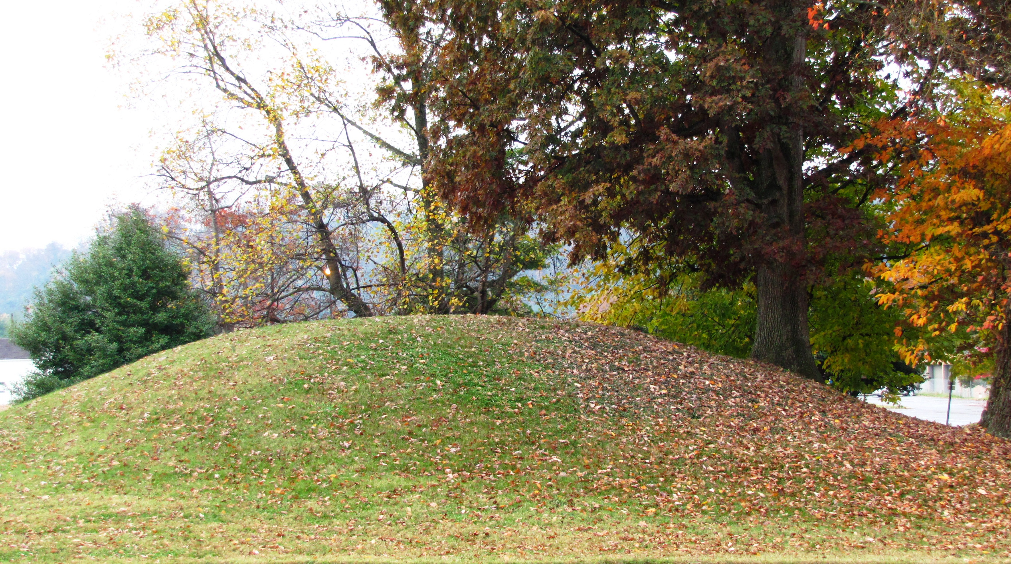 Burial mound at the University of Tennessee's College of Agriculture campus in Knoxville, Tennessee, USA. This mound was constructed by the area's Late Woodland period inhabitants circa 1000 A.D.